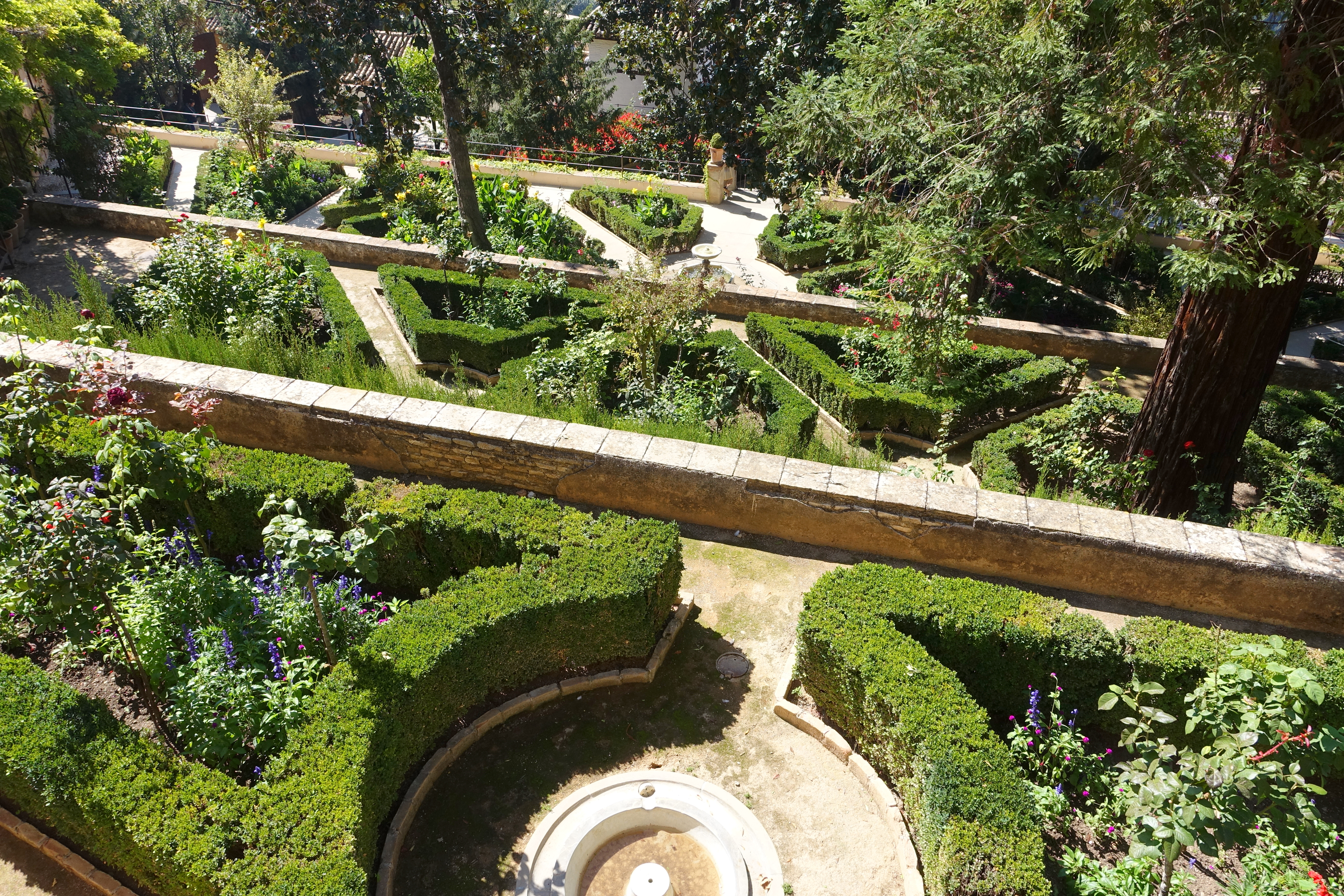 Jardines Altos (Generalife) - Granada, Spain.